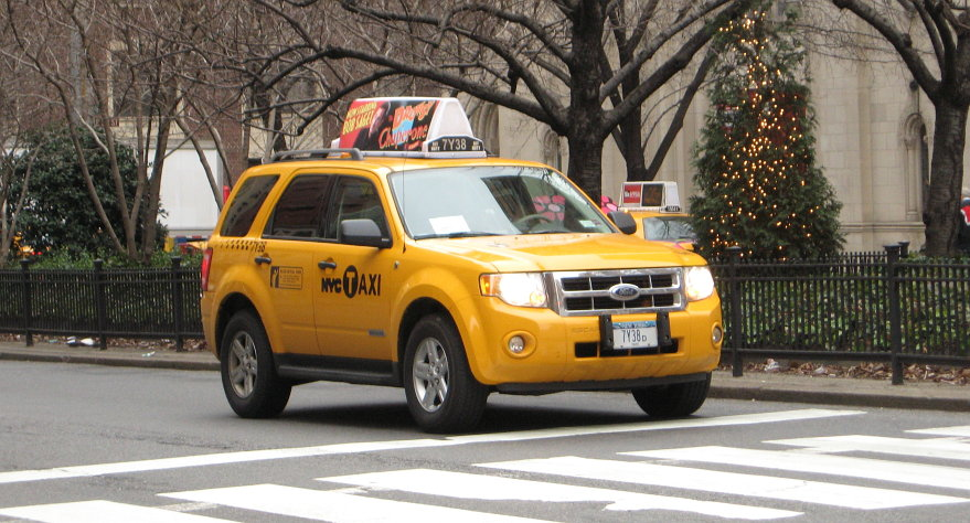 A Ford Escape NYC Taxi hybrid at Park Avenue and East 37 Street, New York City.